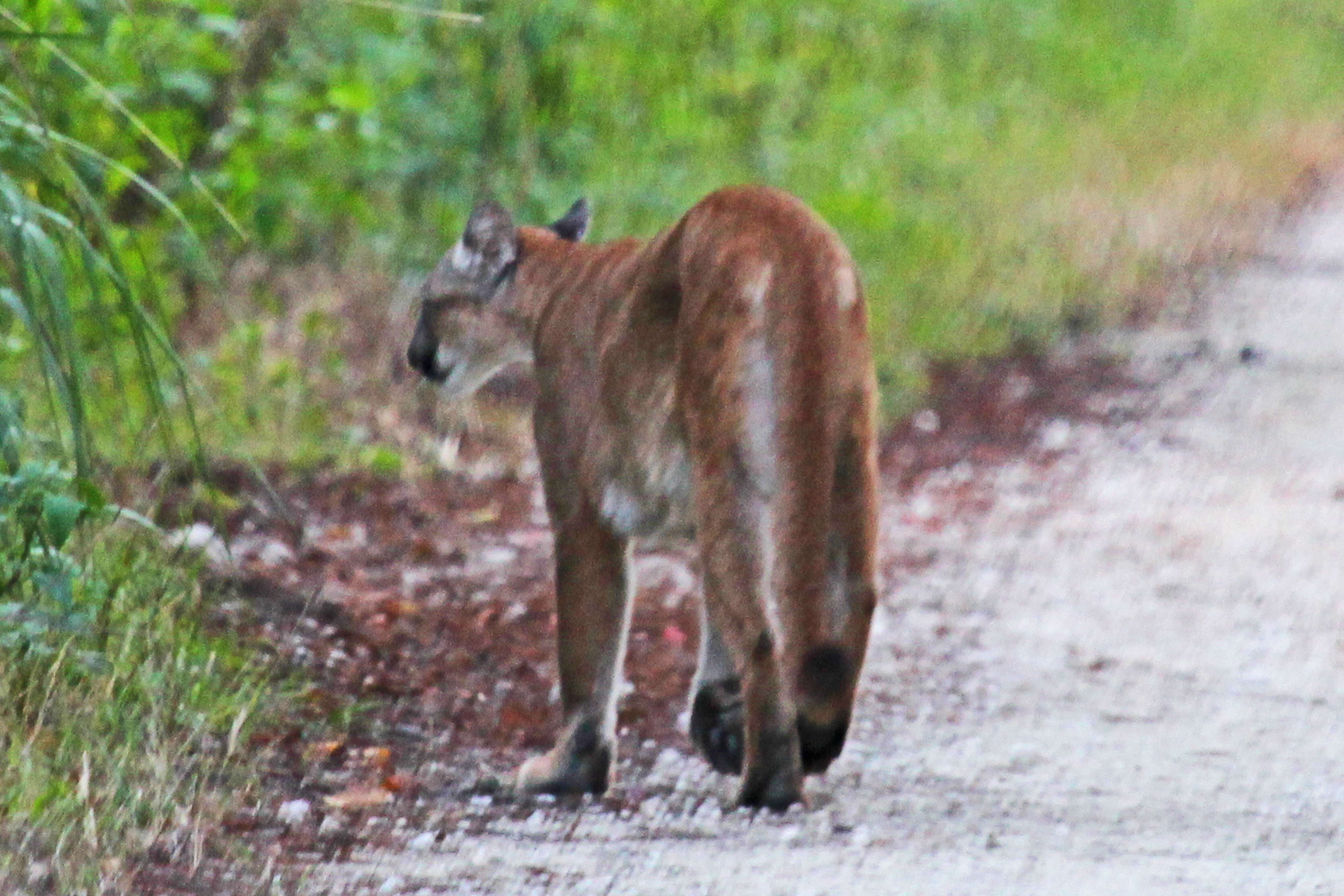 Florida Panther - Puma concolor coryi, Fakahatchee Strand Preserve State Park, Collier, Florida. It was at dusk, and I was driving out of the state park when I saw this. There wasn't much light, so it's a lousy picture, but to see one of the less than 200 remaining Florida Panthers was a thrill beyond description.